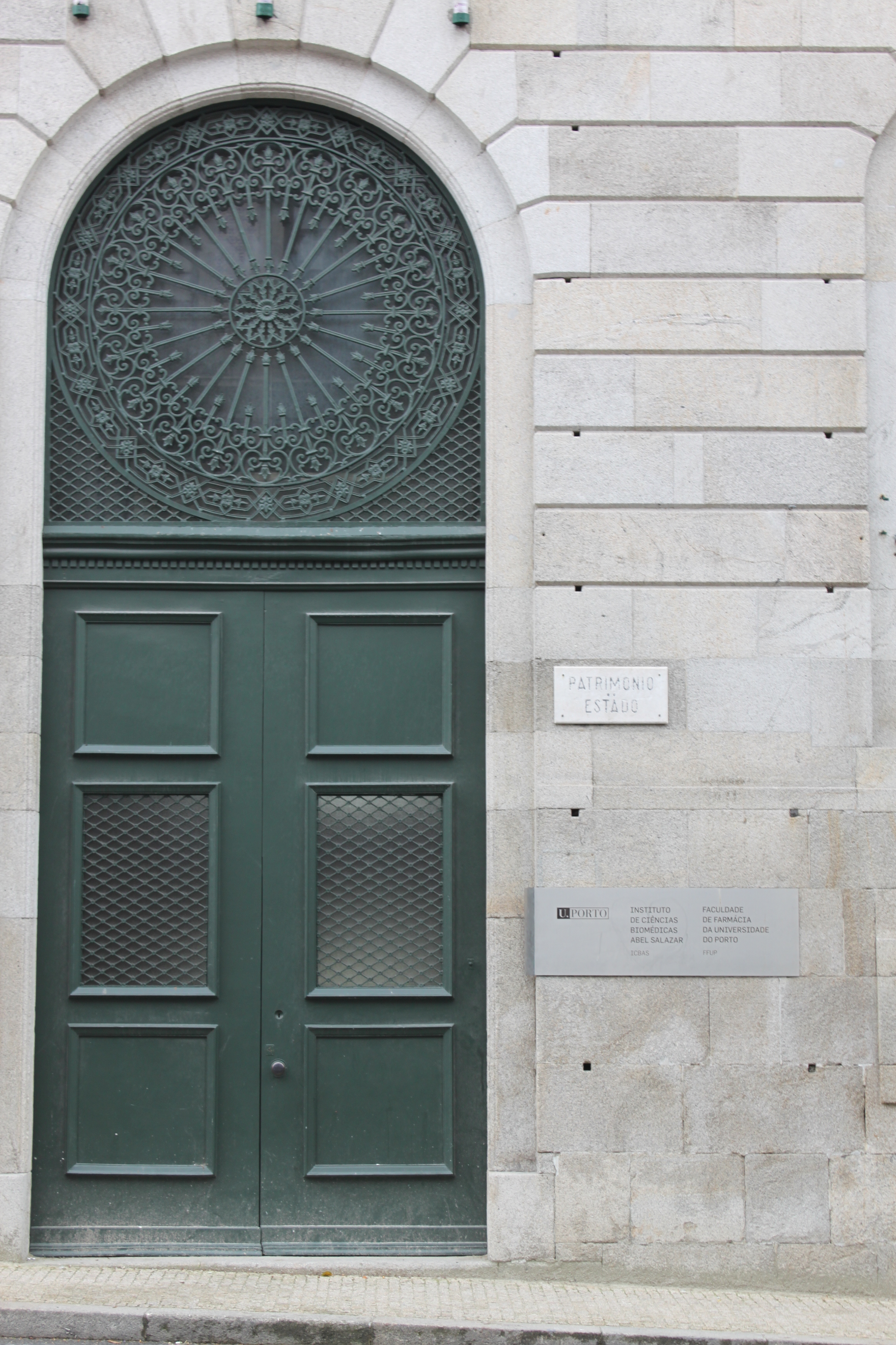 Entrance to ICBAS-FFUP.